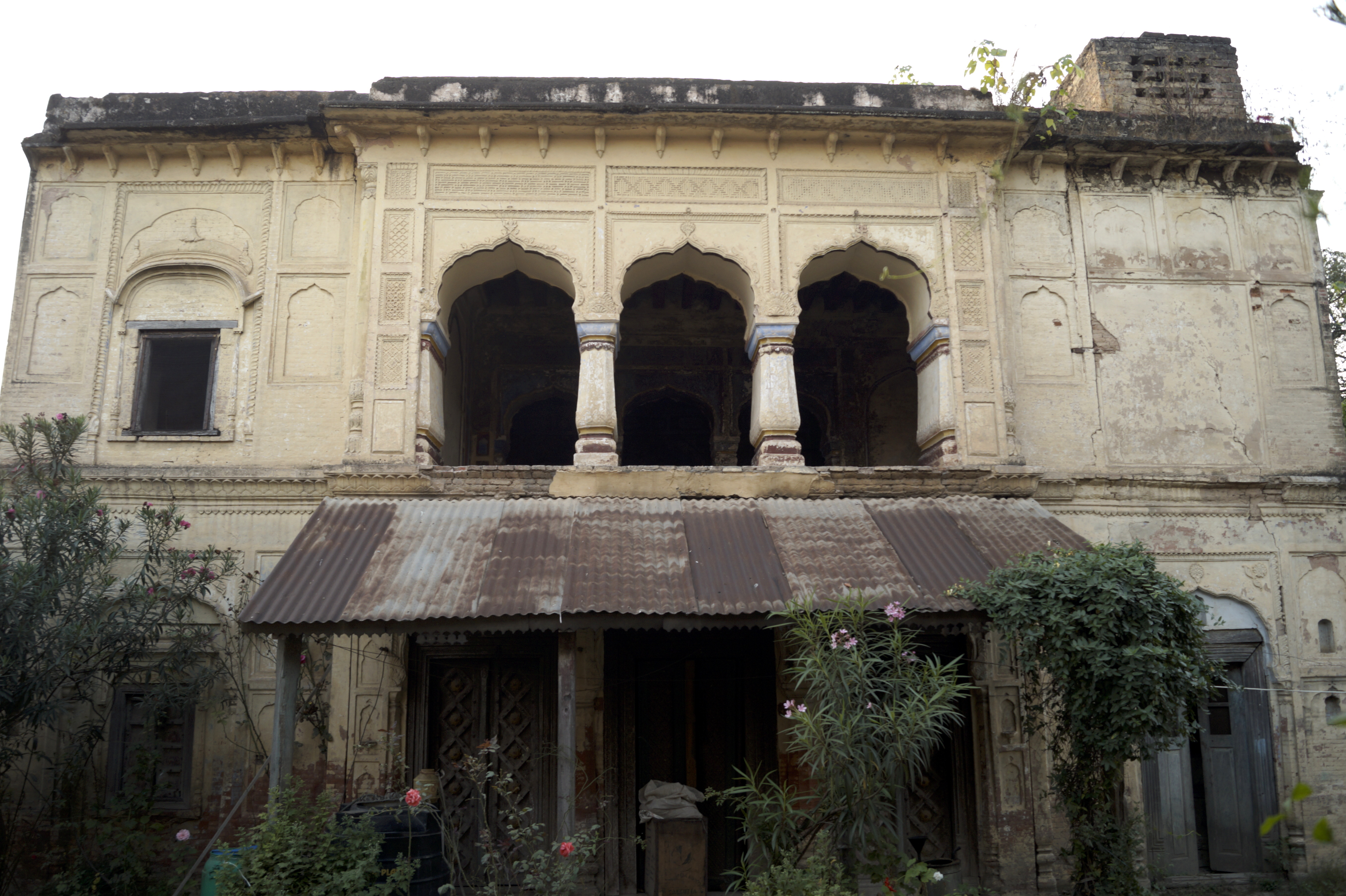 Palace of Kunihar Prncely State, Himachal Prades India